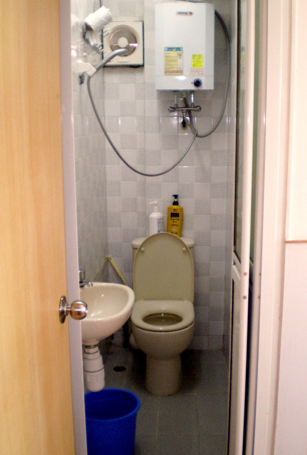 Hong Kong combination shower and bathroom.